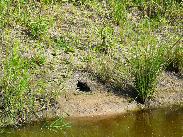 den of unknown animal (water rat), Losse brook (Fulda river, Germany)